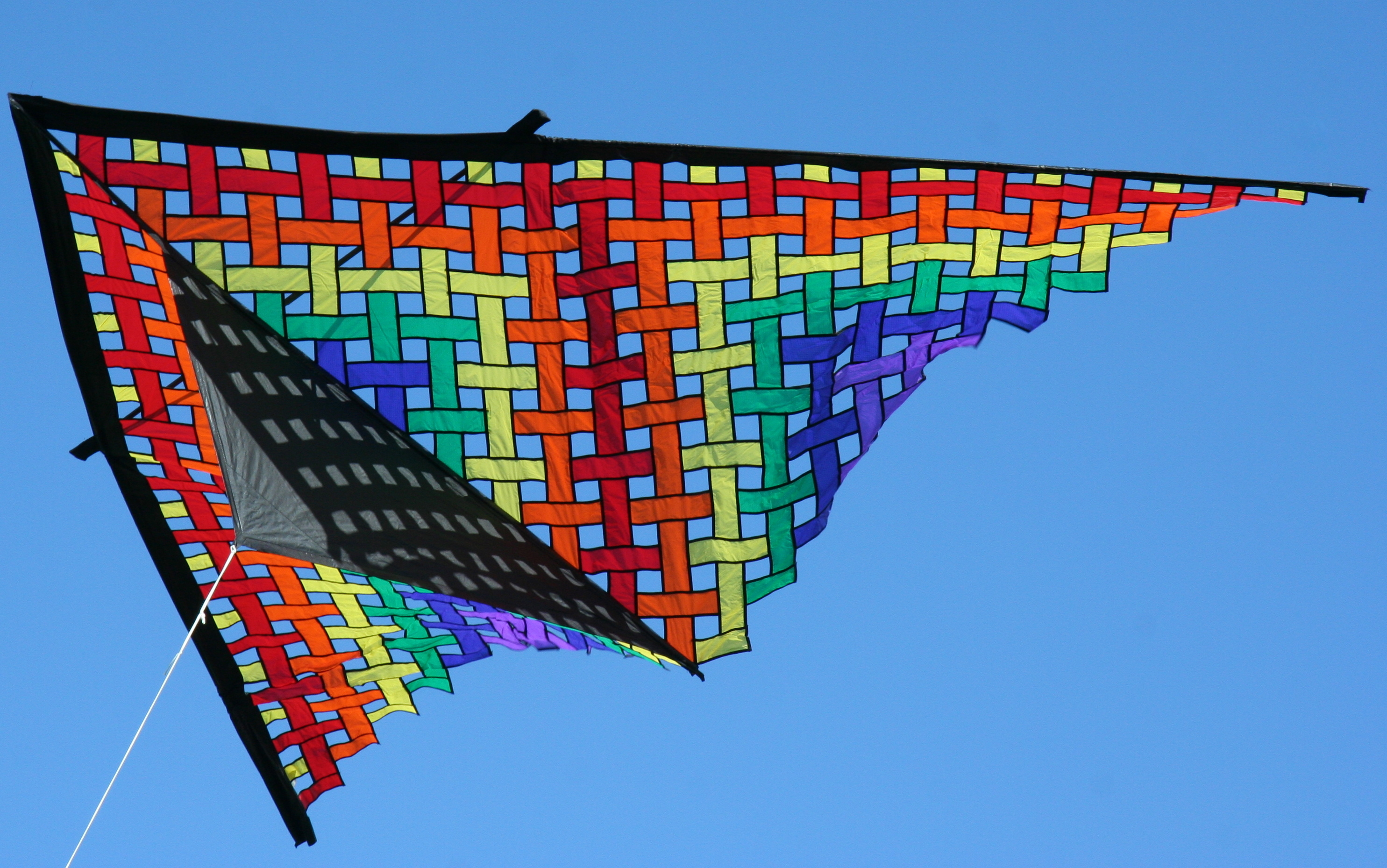 Multicolored nylon lattice delta kite